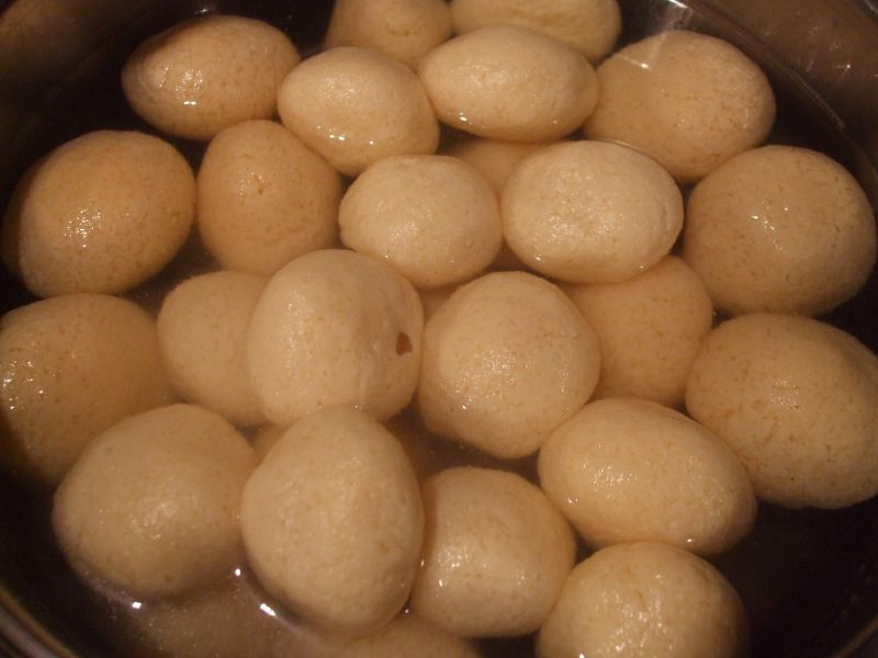 Rasgulla is a traditional sweet of odisha.